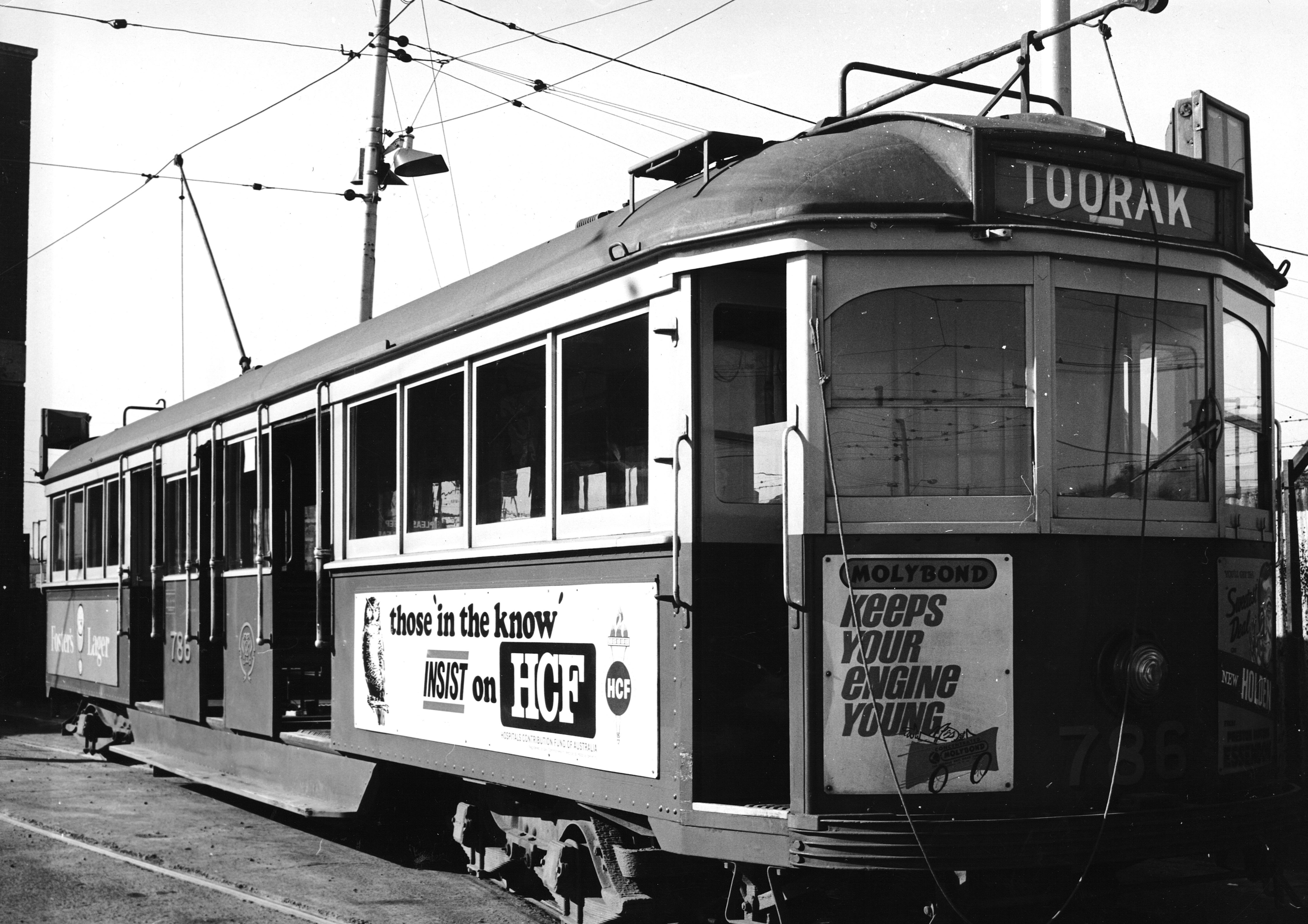 A Victorian Tram with HCF's ad in 1969 - just before it closed its office in Victoria before 1970 due to a result of introducing National Health Act 1970.